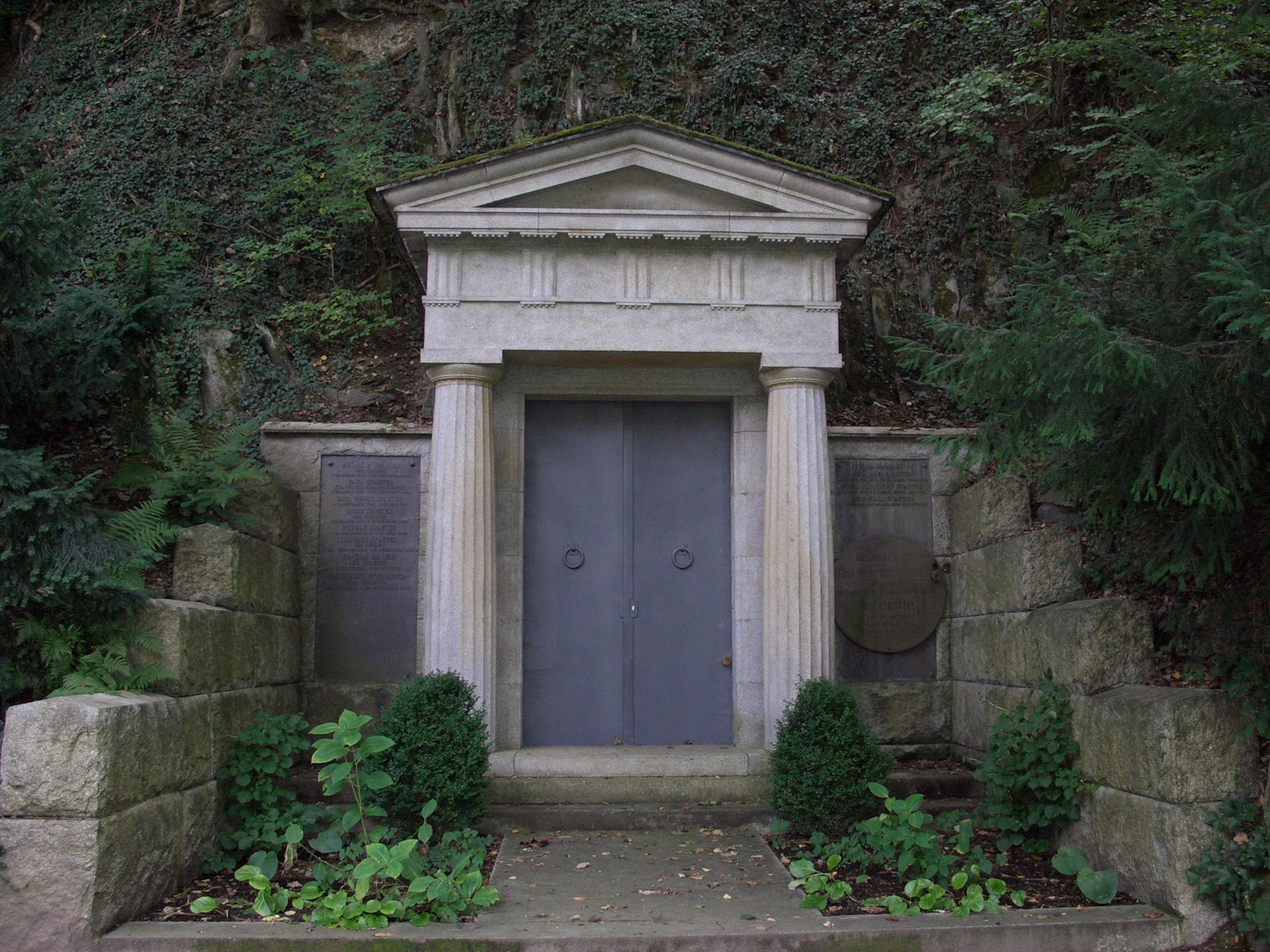 Crypt of the family Spaeter at the cemetery of Koblenz